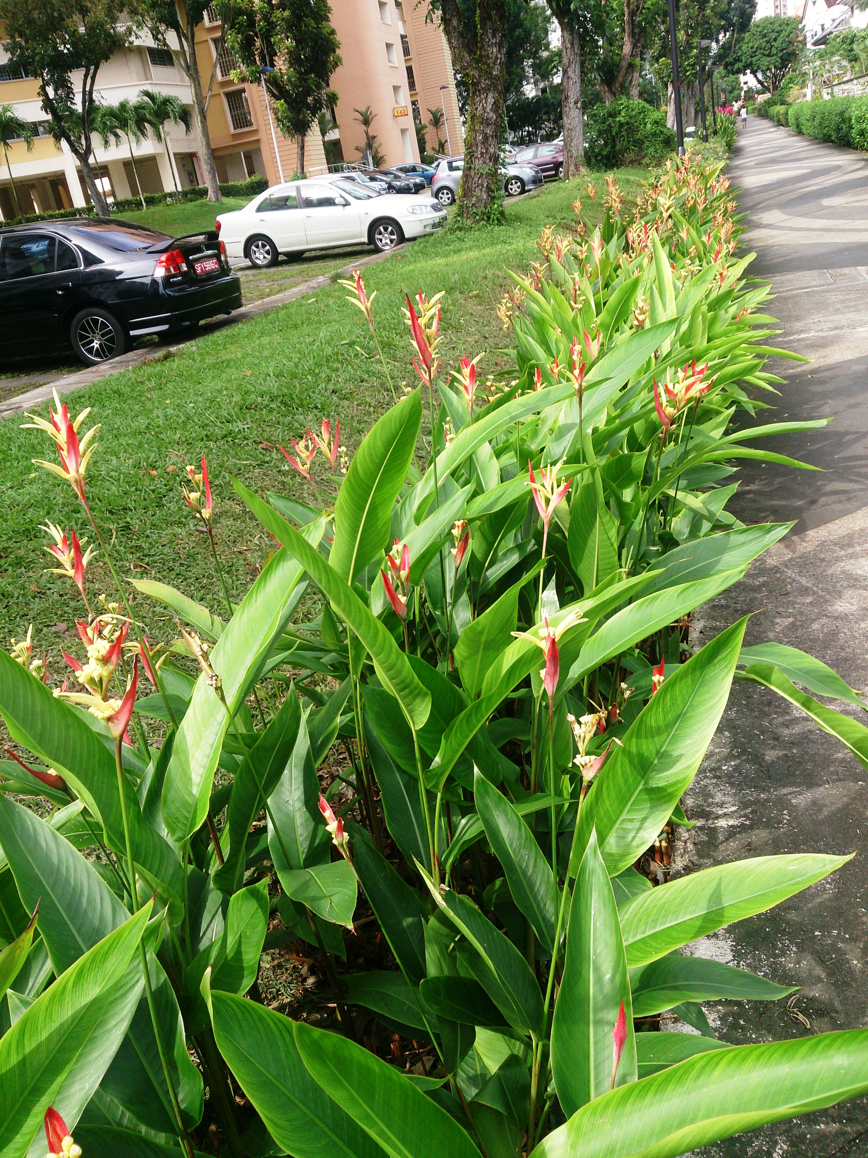 Heliconia latispatha